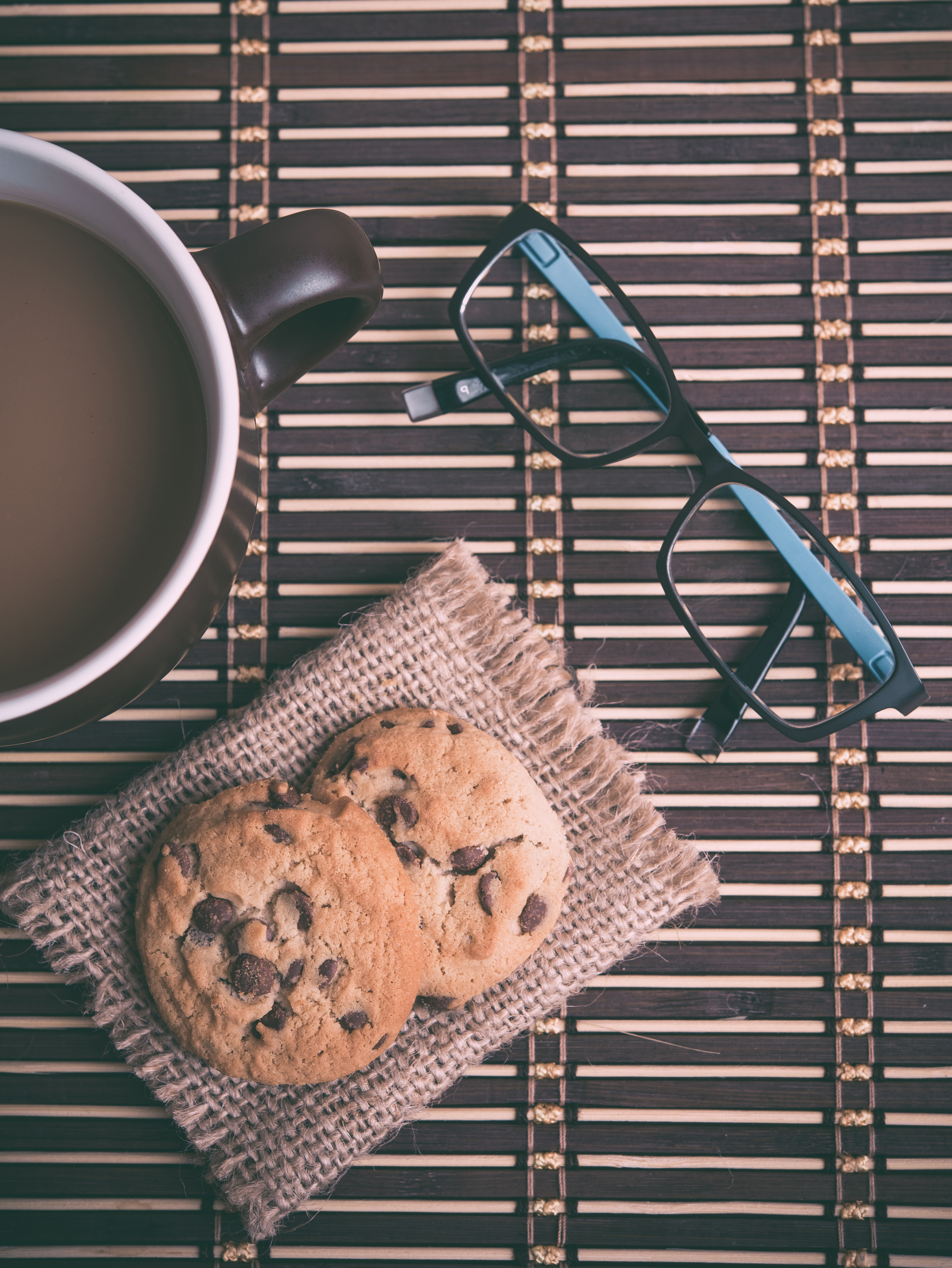 PICSELI 2015-01-25